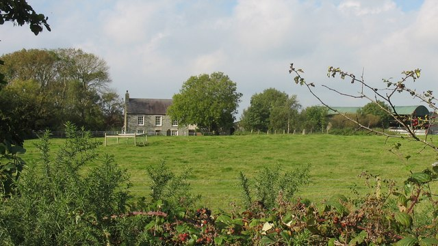 The site of Llanllibio Church. Tan-y-fynwent, the name of the house, becomes self explanatory when one finds that this was the site of the chapel of ease of Llanlleibio. The chapel was abandoned in the 17th century and soon became a ruin. Nothing is now left on the site, except for a slate gravestone commemorating all the dead, which can be seen right in front of the house. 984545